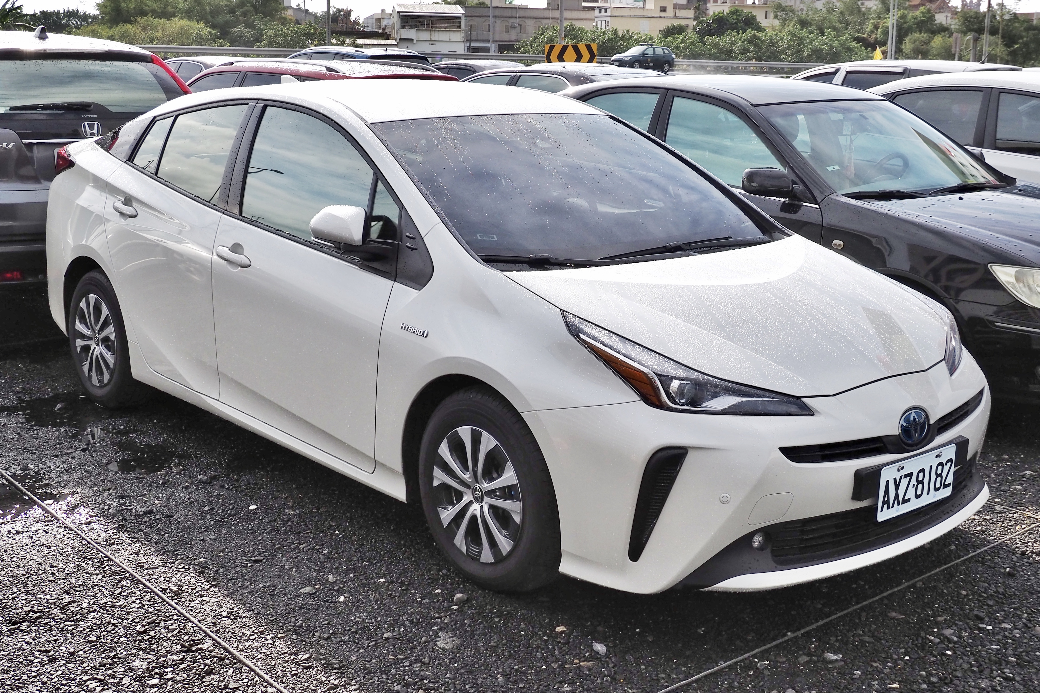 A 2019 Toyota Prius photographed in Toucheng Township, Yilan County, Taiwan. 中文（台灣）: 一輛2019年的豐田普銳斯，拍攝於台灣宜蘭縣頭城鎮。